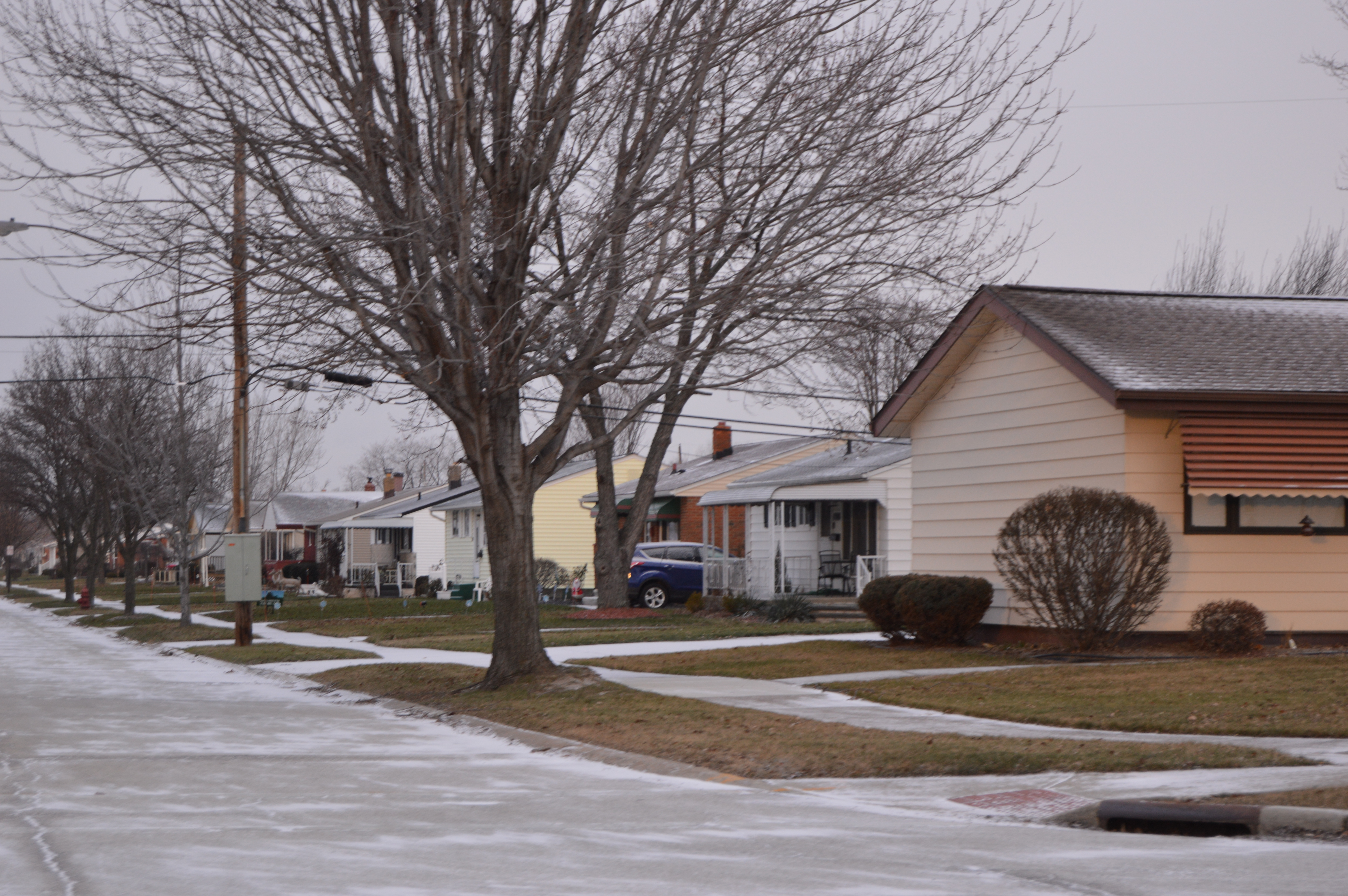 Houses on the northern side of Richard Drive, seen looking west from Smith Road, in Brook Park, Ohio, United States.